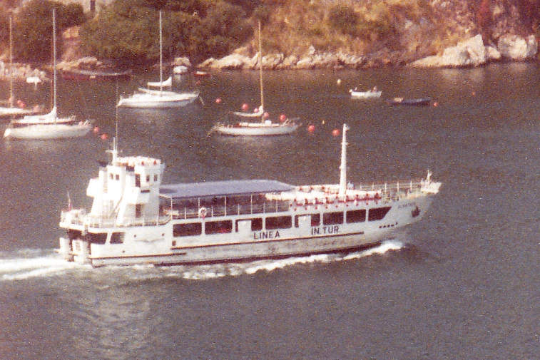 1981 - The new built Albatros I in Le Grazie bay